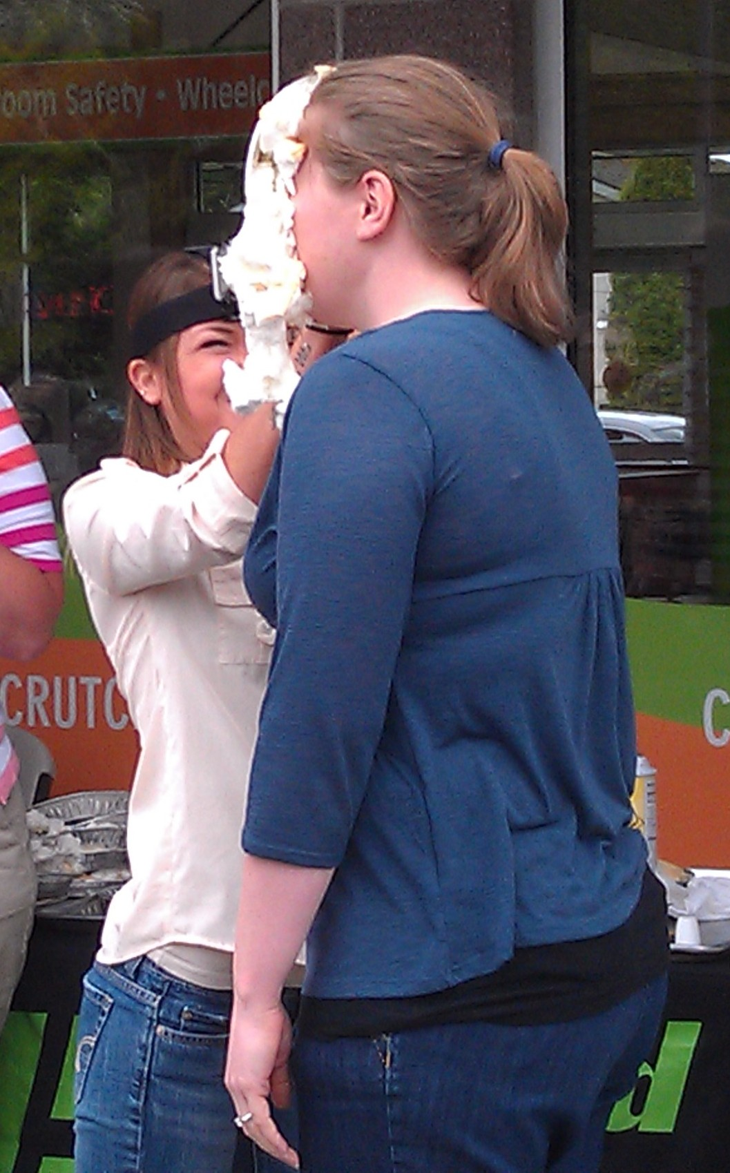 Taking a pie in the face for ALS